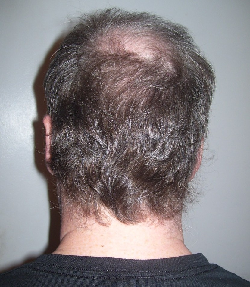 The back of a middle-aged American man's head, showing typical male pattern baldness